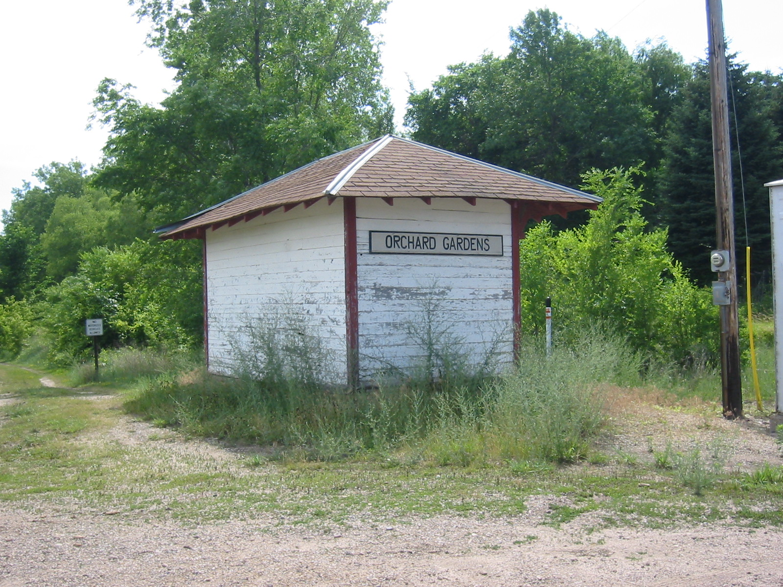 Minneapolis Saint Paul Rochester & Dubuque Electric Traction Company Depot in Burnsville, Minnesota. This station is no longer in use. The rail line later became known as the Minneapolis, Northfield and Southern Railway.